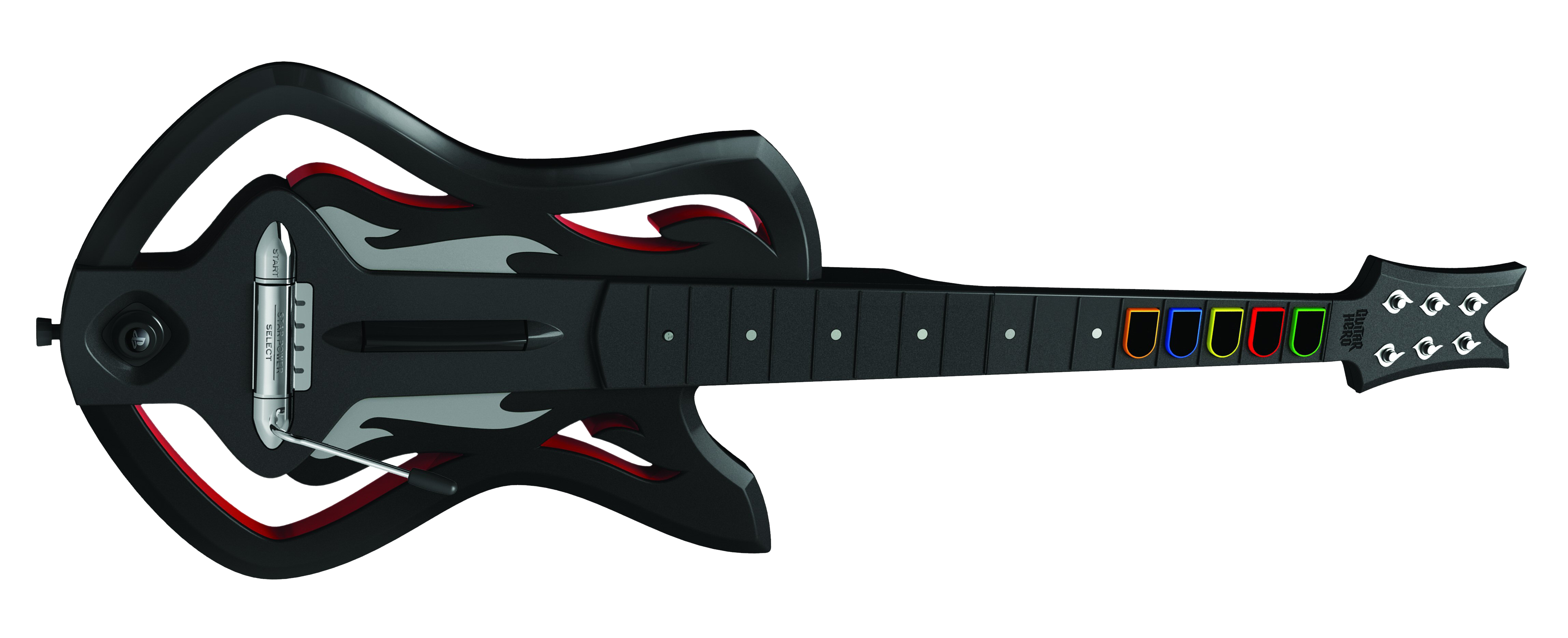 The background was removed to give a transparant look